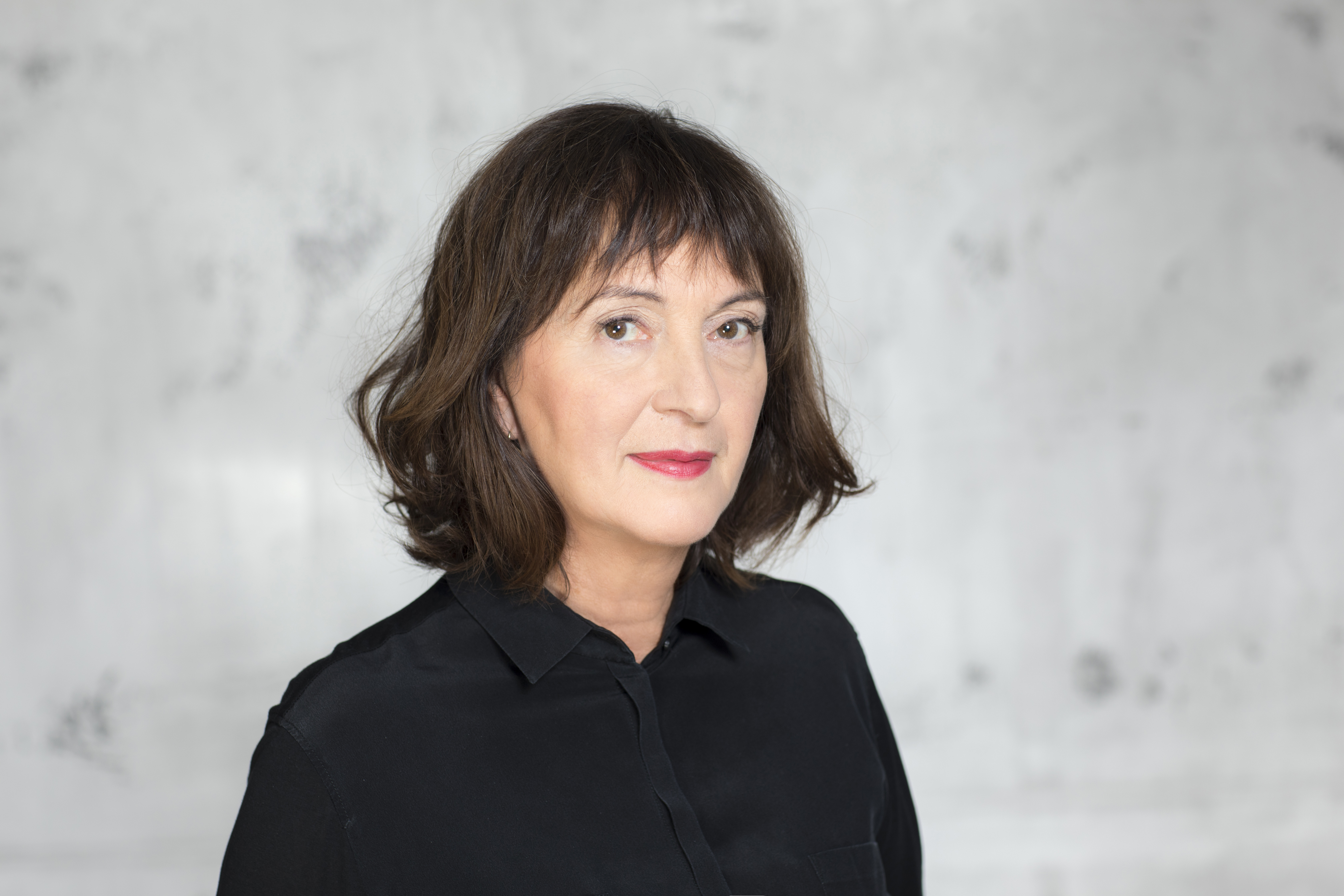 Sonia Seymour Mikich, Editor-in-Chief, WDR TV, Cologne